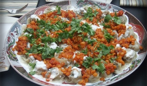 Mantu, Central Asian recipe.